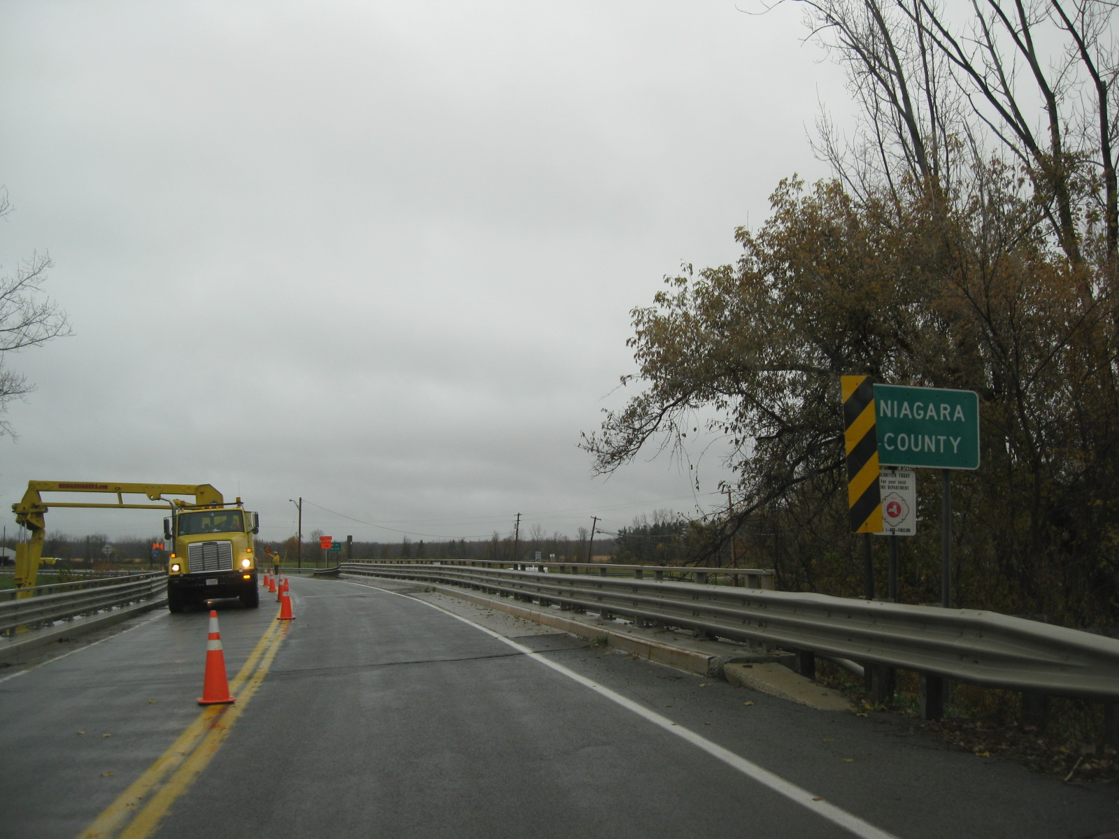 New York State Route 93 westbound approaching the Niagara County line in Royalton, crossing over Tonawanda Creek.